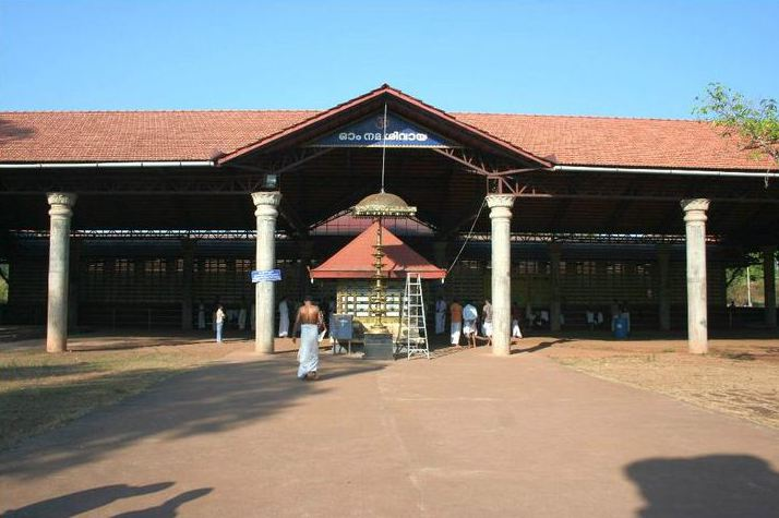 Sree Rajarajeshwara Temple is regarded as one of the existing 108 ancient Shiva Temples of Kerala